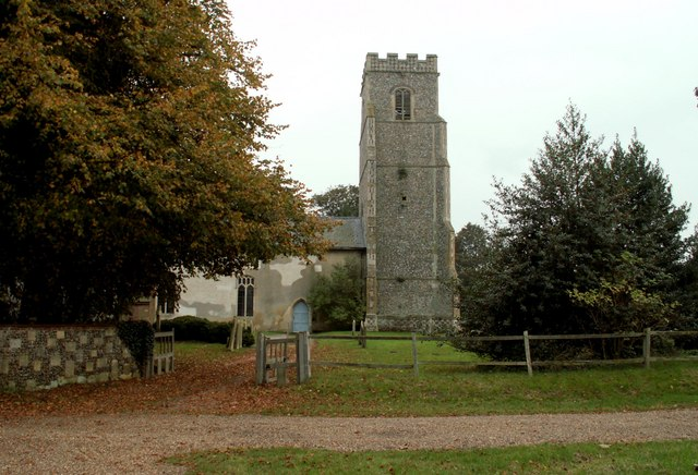 Church of St Gregory the Great in Rendlesham, Suffolk, England. A Grade I listed medieval church.